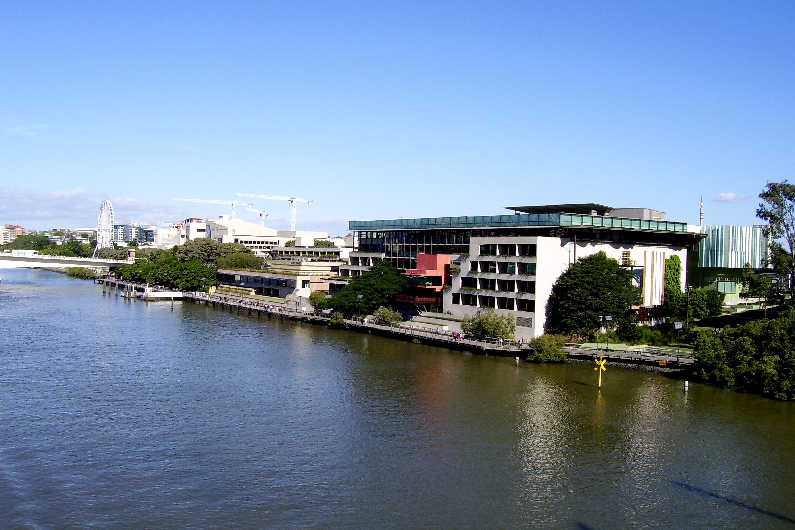 State Library of Queensland (right) with the Queensland Performing Arts Centre, South Bank and the Queen Victoria Bridge (left)